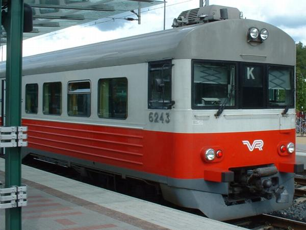 Exterior of Finnish VR Class Sm1 electric multiple unit (end of trailing unit number 6243). The unit was being used as a line "K" local train at track 5 of Kerava station Saturday, 17th of July 2004 at 15:08 local time, waiting for departure towards Helsinki at 15:14.